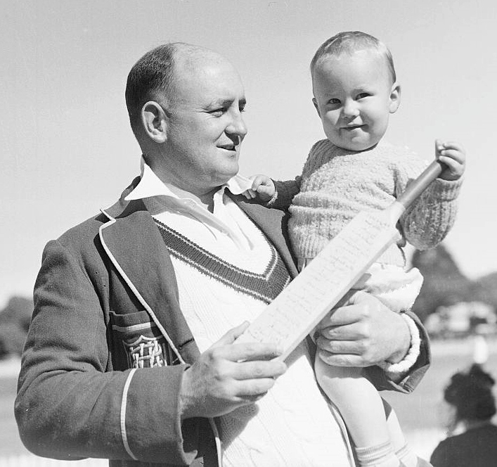 Stan McCabe and son Geoffrey, 8 October 1940. Fairfax Photo Library.